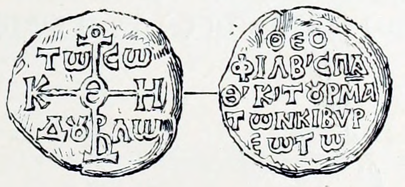 Seal of Theophilos, basilikos spatharios and tourmarches of the Kibyrrhaiotai